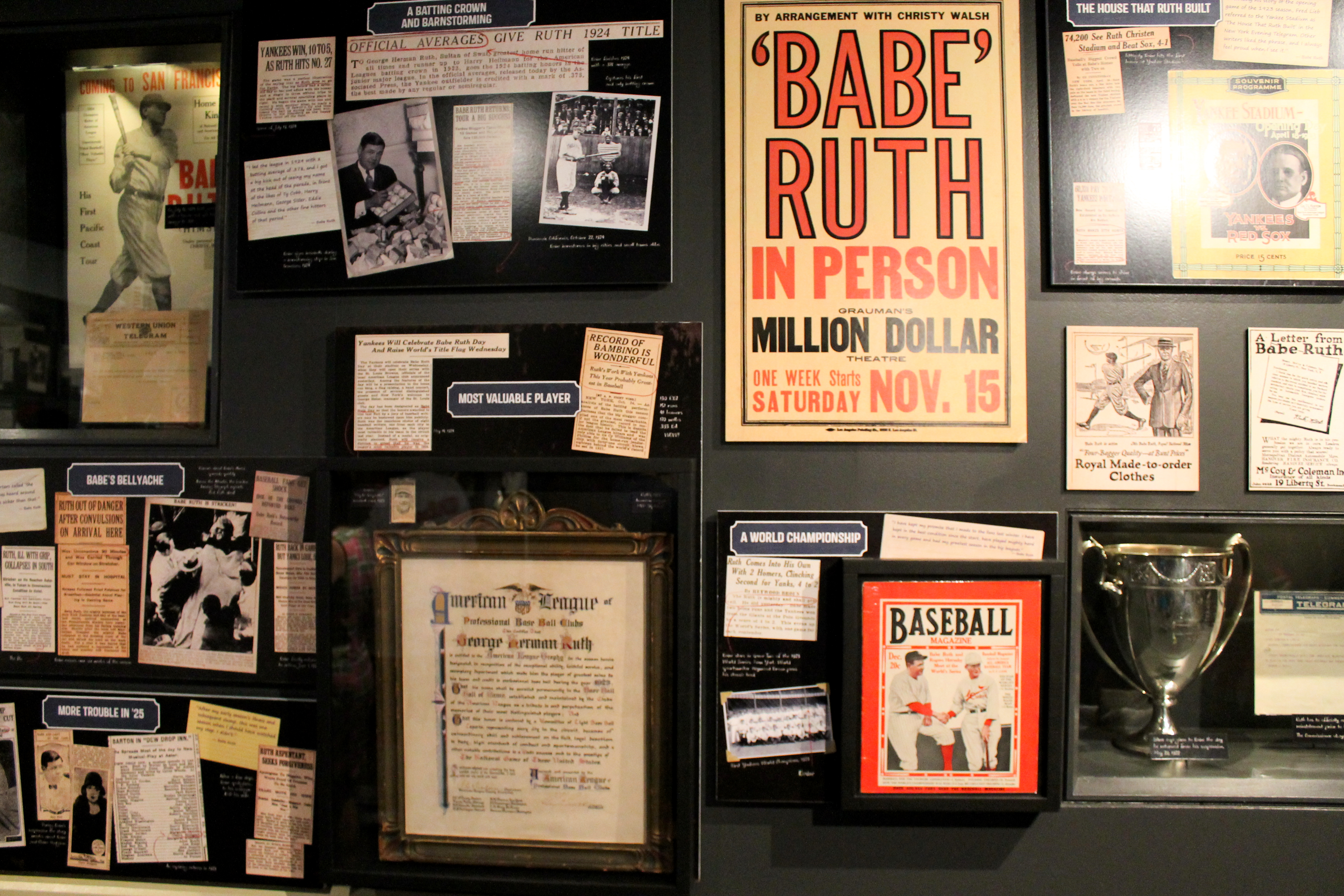 Memorabilia commemorating baseball player Babe Ruth at the Baseball Hall of Fame.